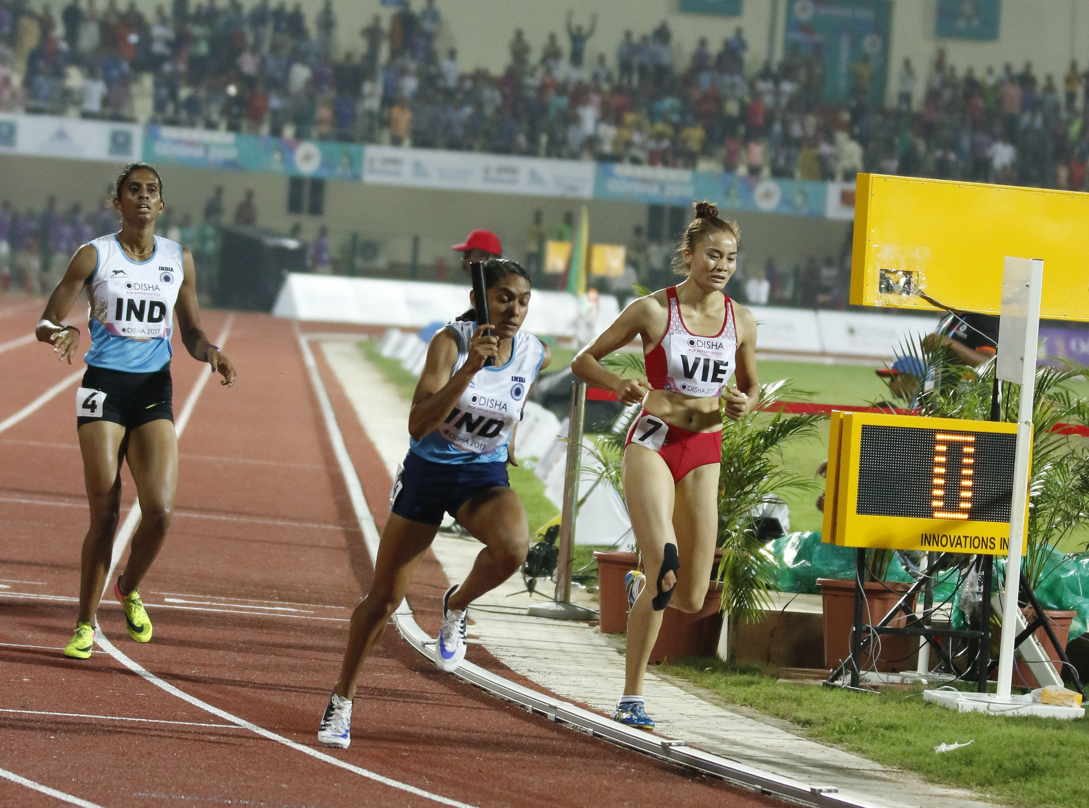 2017 Asian Athletics Championships at the Kalinga Stadium in Bhubaneswar, India